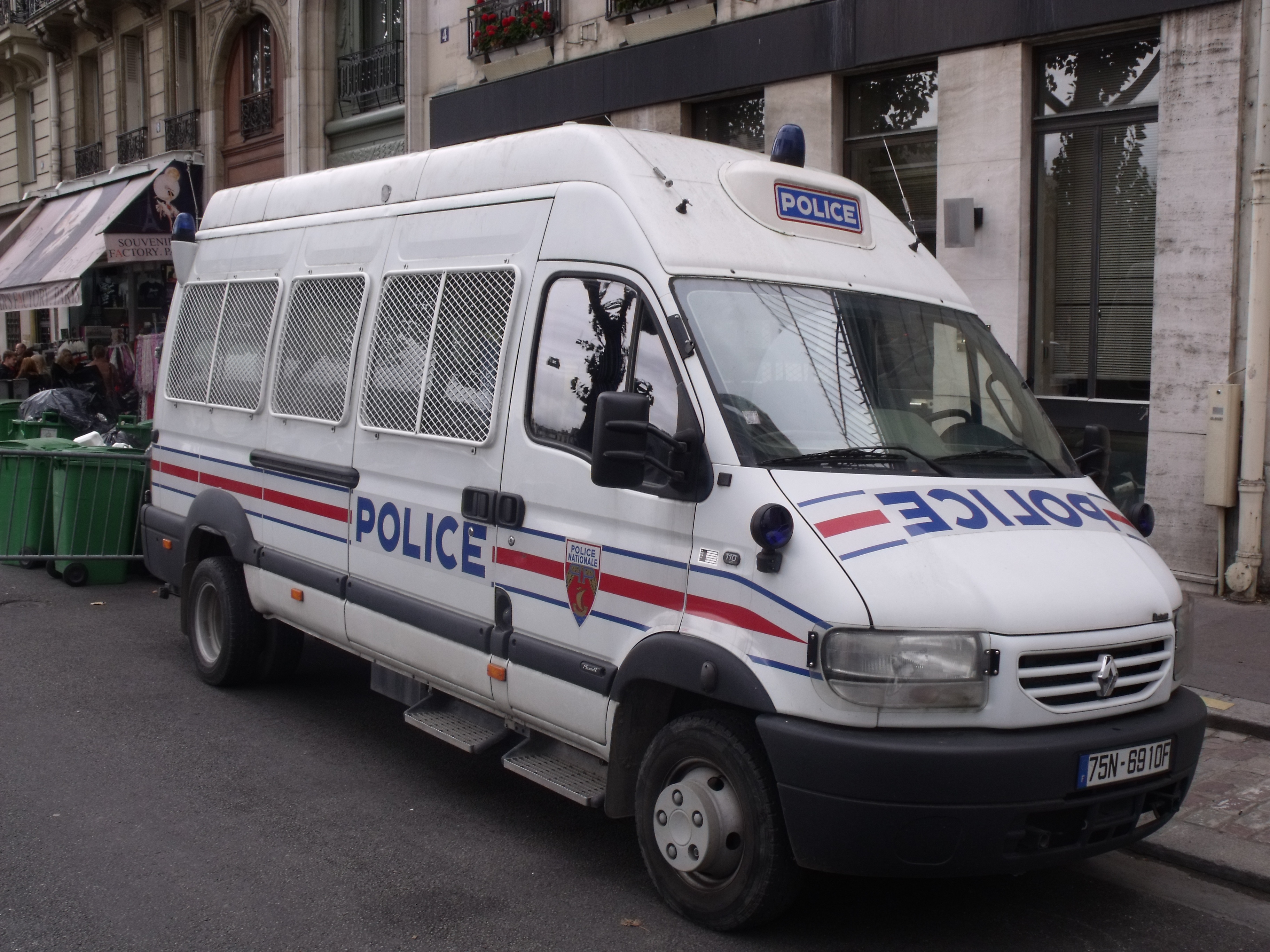 This vehicle is used by units of law enforcement and riot contrel of the Police Nationale. Here it is Saturday, October 8, 2011 on the Ile de la Cité in Paris.